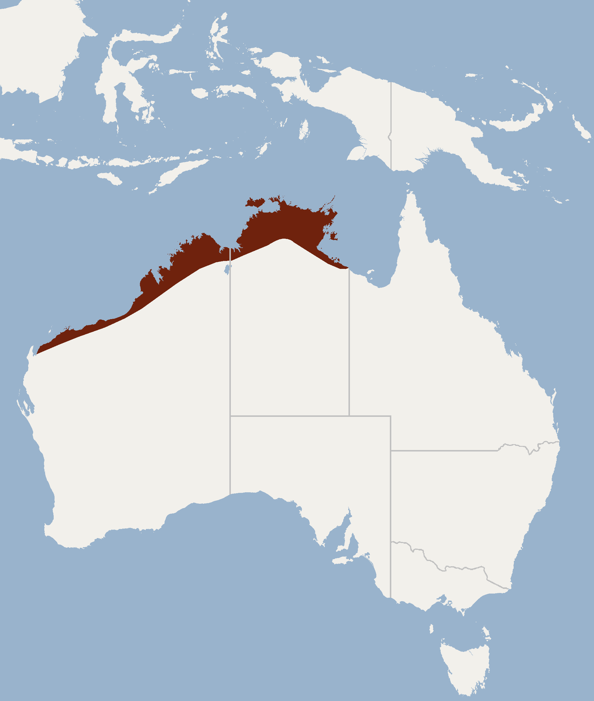 According to Menkhorst & Knight, 2001